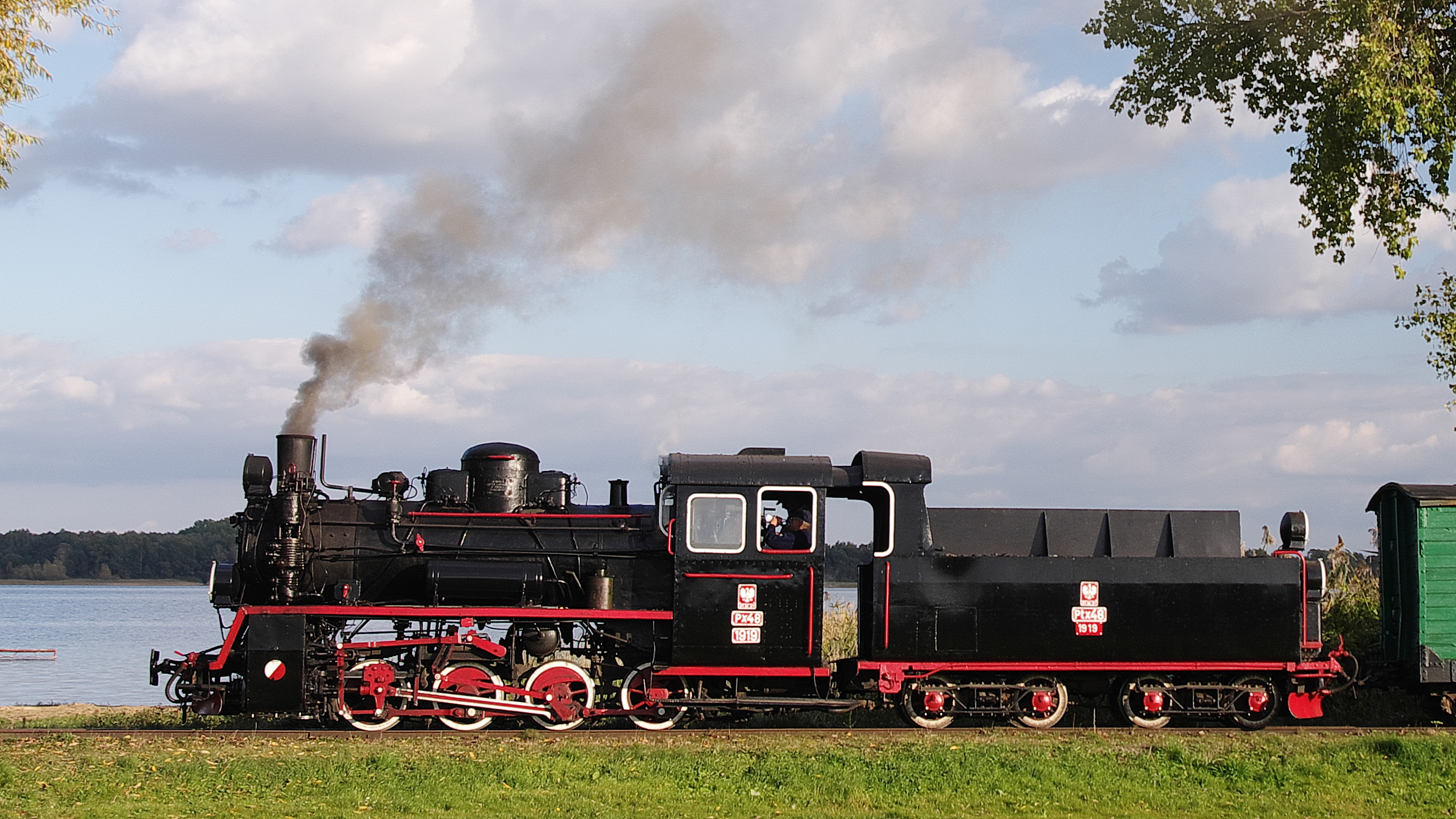 Steam Locomotive Px48-1919 during the train excursion "Autumn full steam ahead"